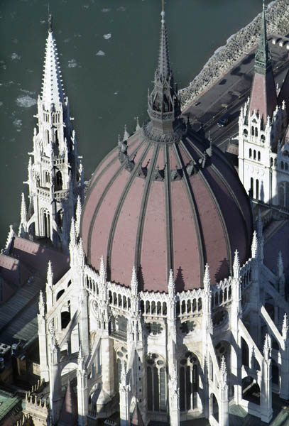 Parlament of Hungary, aerial photography